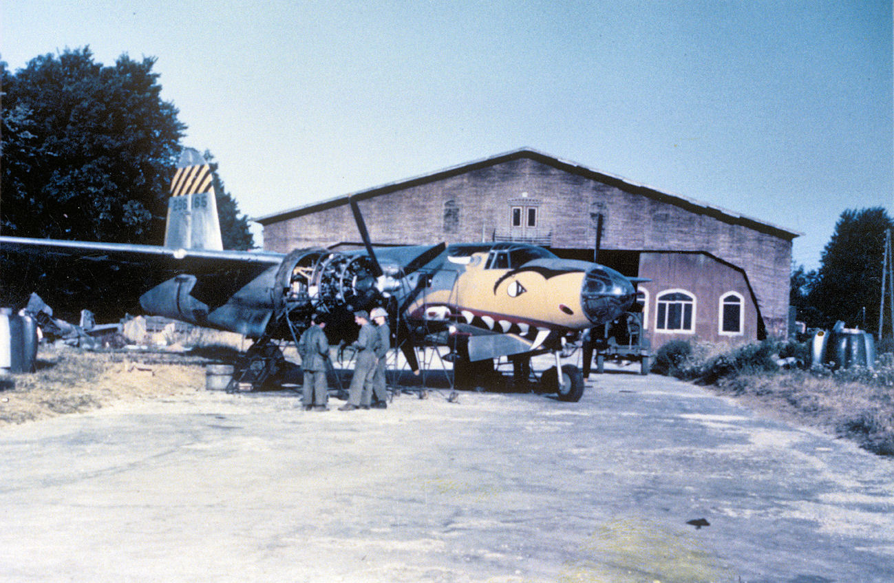 Ground personnel of the 387th Bomb Group work on the engines of a shark mouth B-26 Marauder (serial number 42-96165) nicknamed "The Big Hairy Bird".